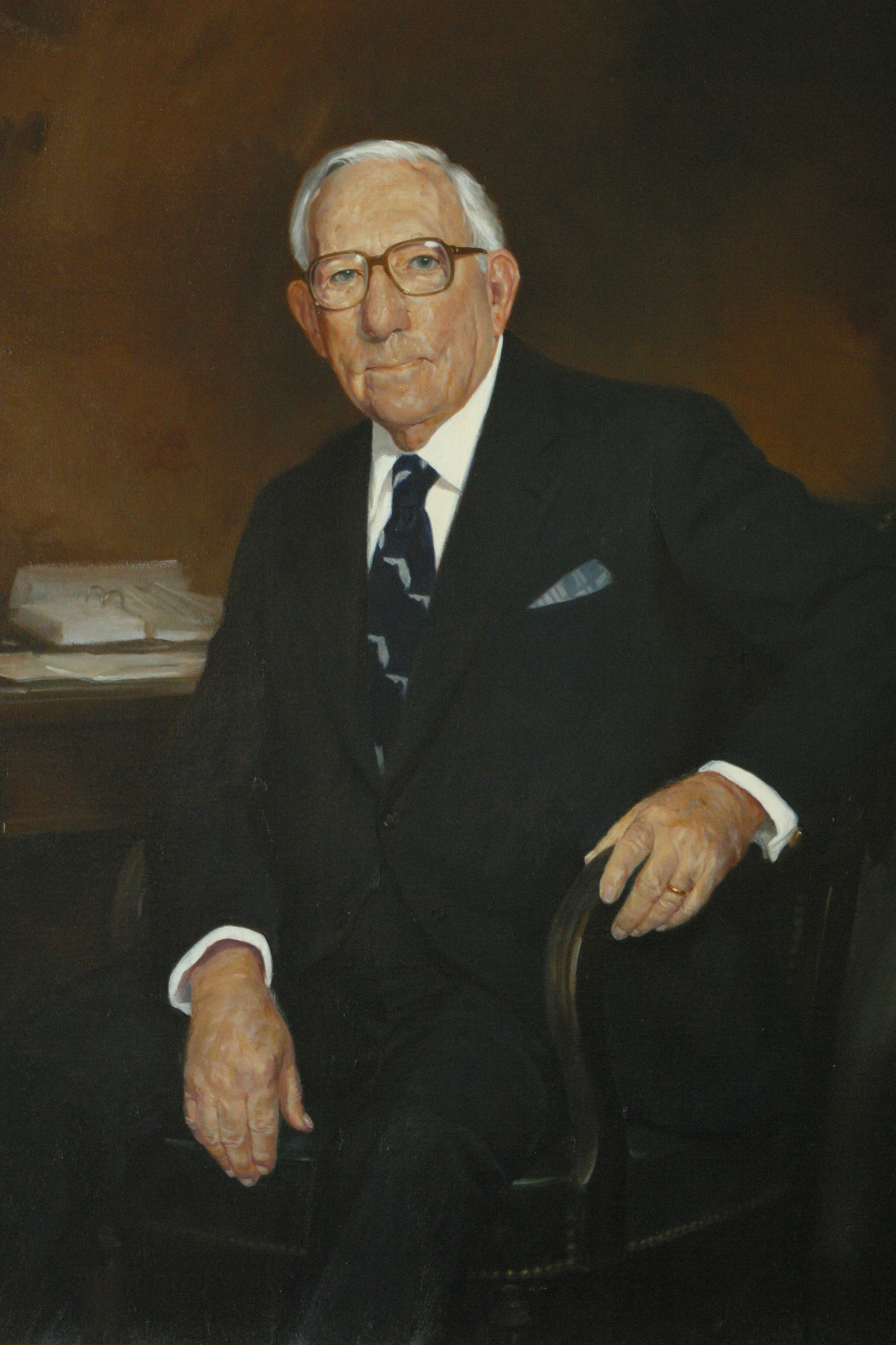 Claude Pepper, Florida Senator. Oil on canvas, Marshall Bouldin III, 1985, Collection of U.S. House of Representatives